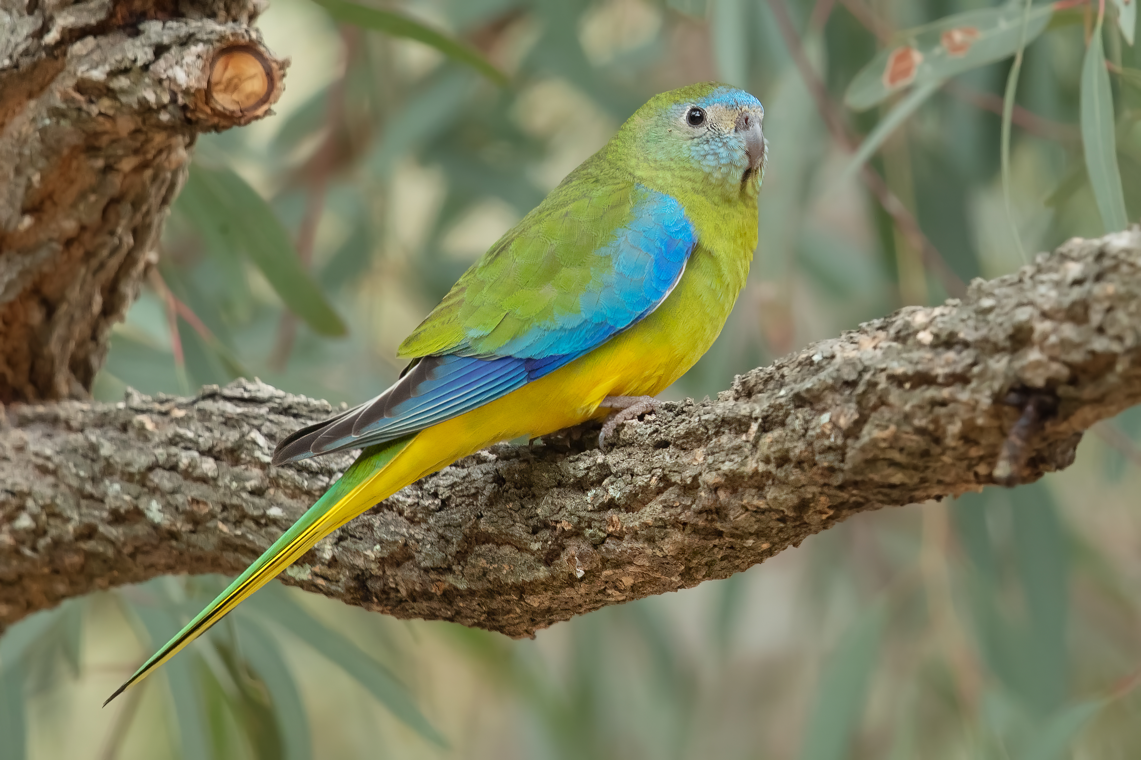 Turquoise Parrot, Neophema pulchella, female, Glen Davis, Lithgow, New South Wales, Australia